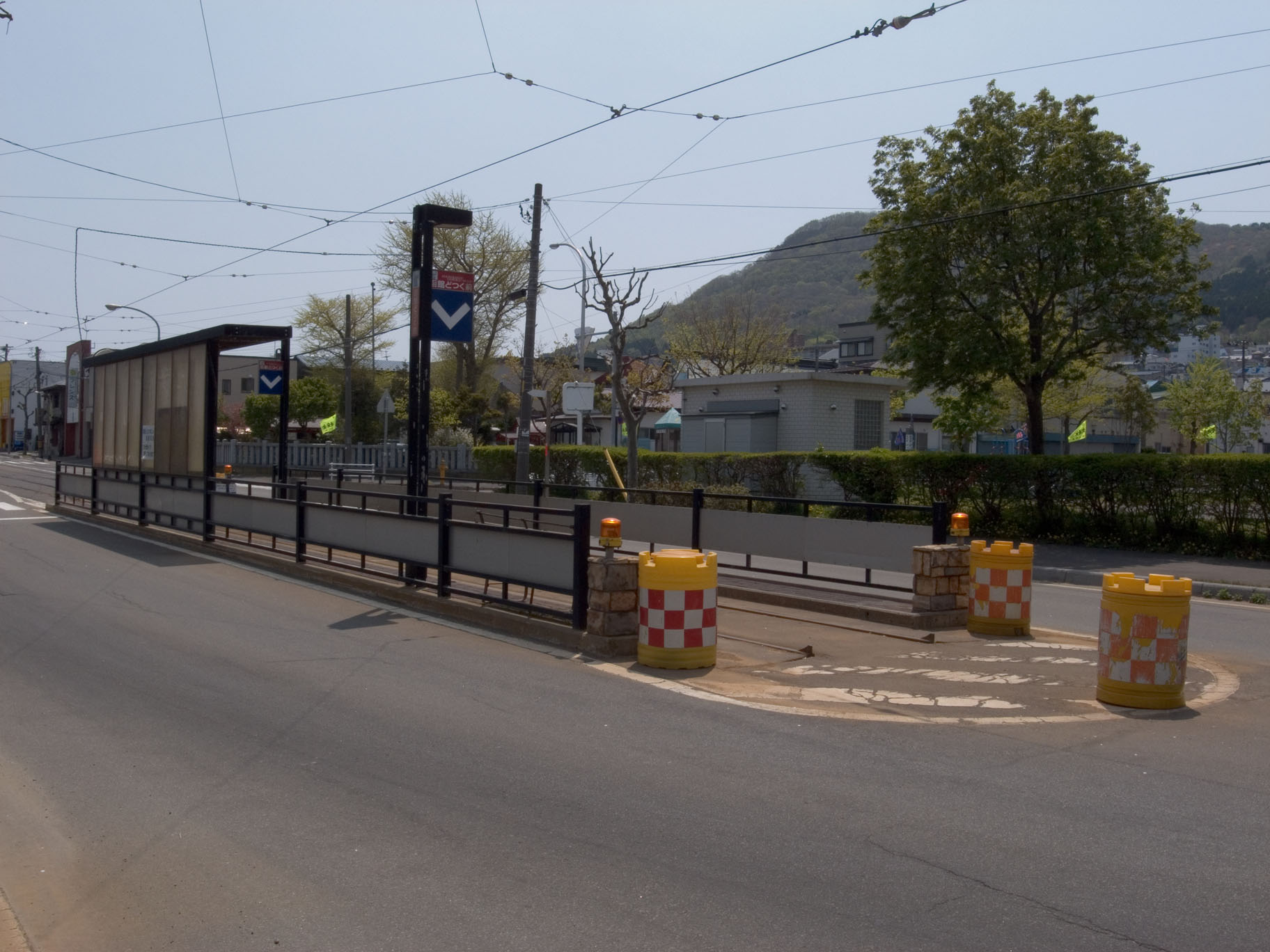 Hakodate-Dock Mae station in Hakodate tram, Hokkaido, Japan